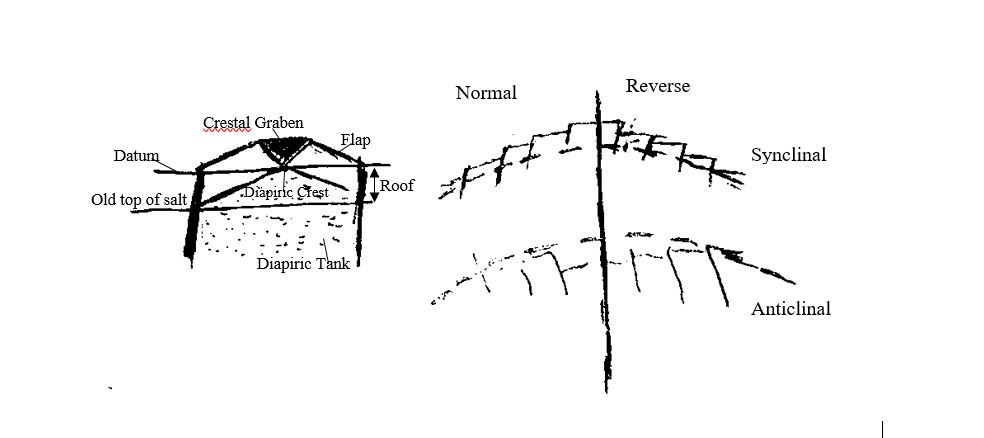 The left shows a generalized structure of a salt dome. Right is a close up of the fault system occurring that creates the crestal graben, the dotted line indicates the salt top.